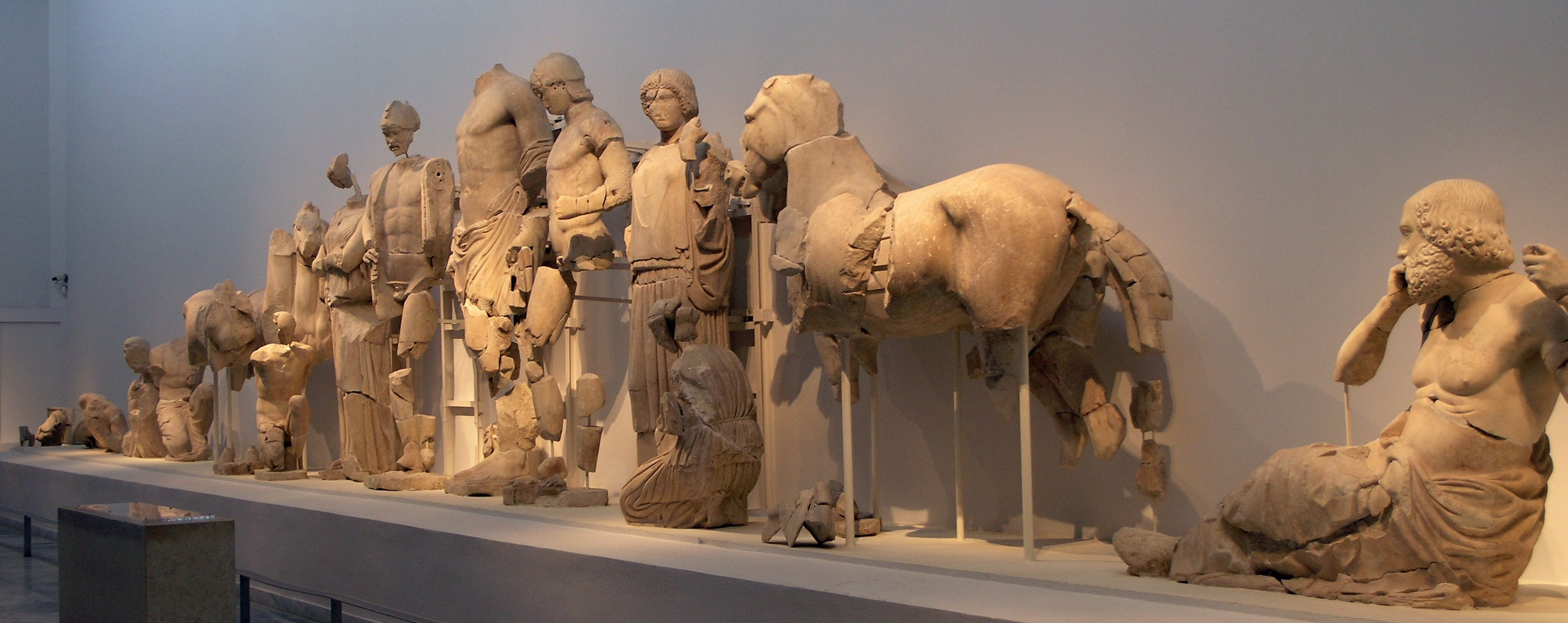 Sculptures of the east pediment of the Temple of Zeus at Olympia. Olympia Archaeological Museum.